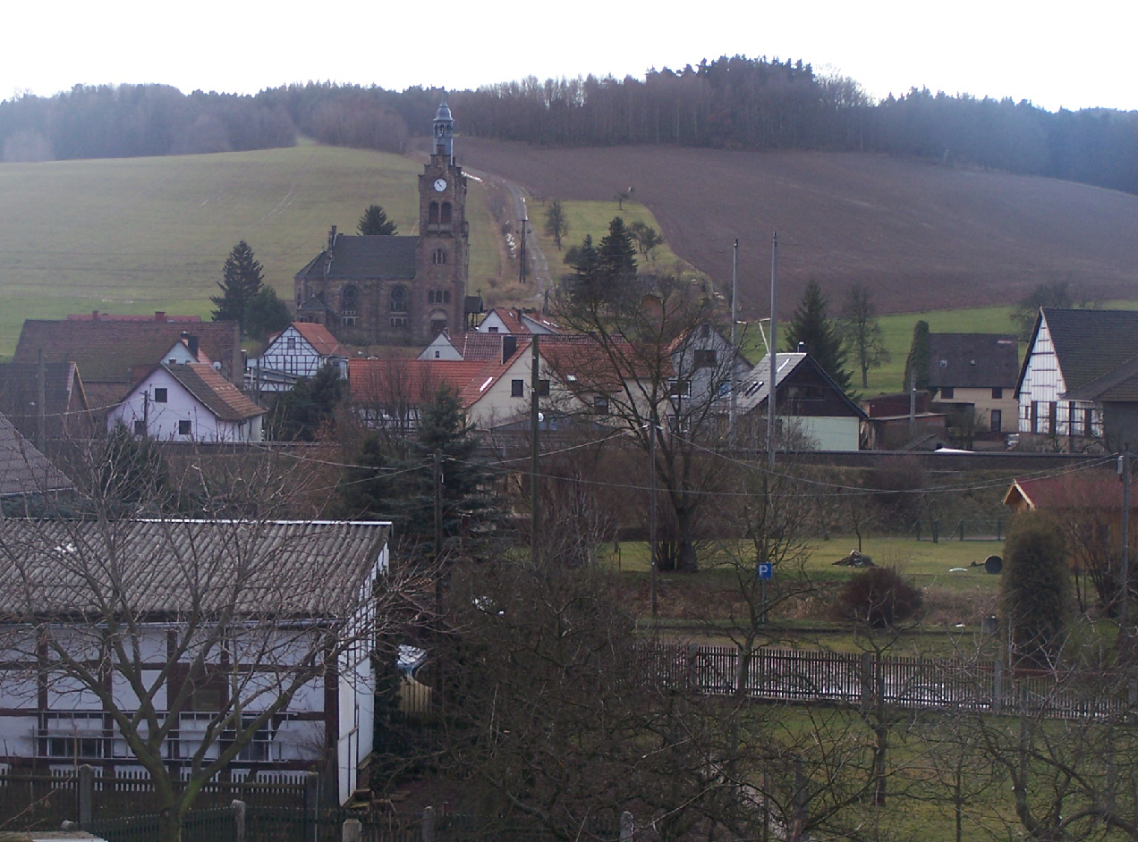 The church in Kälberfeld village.